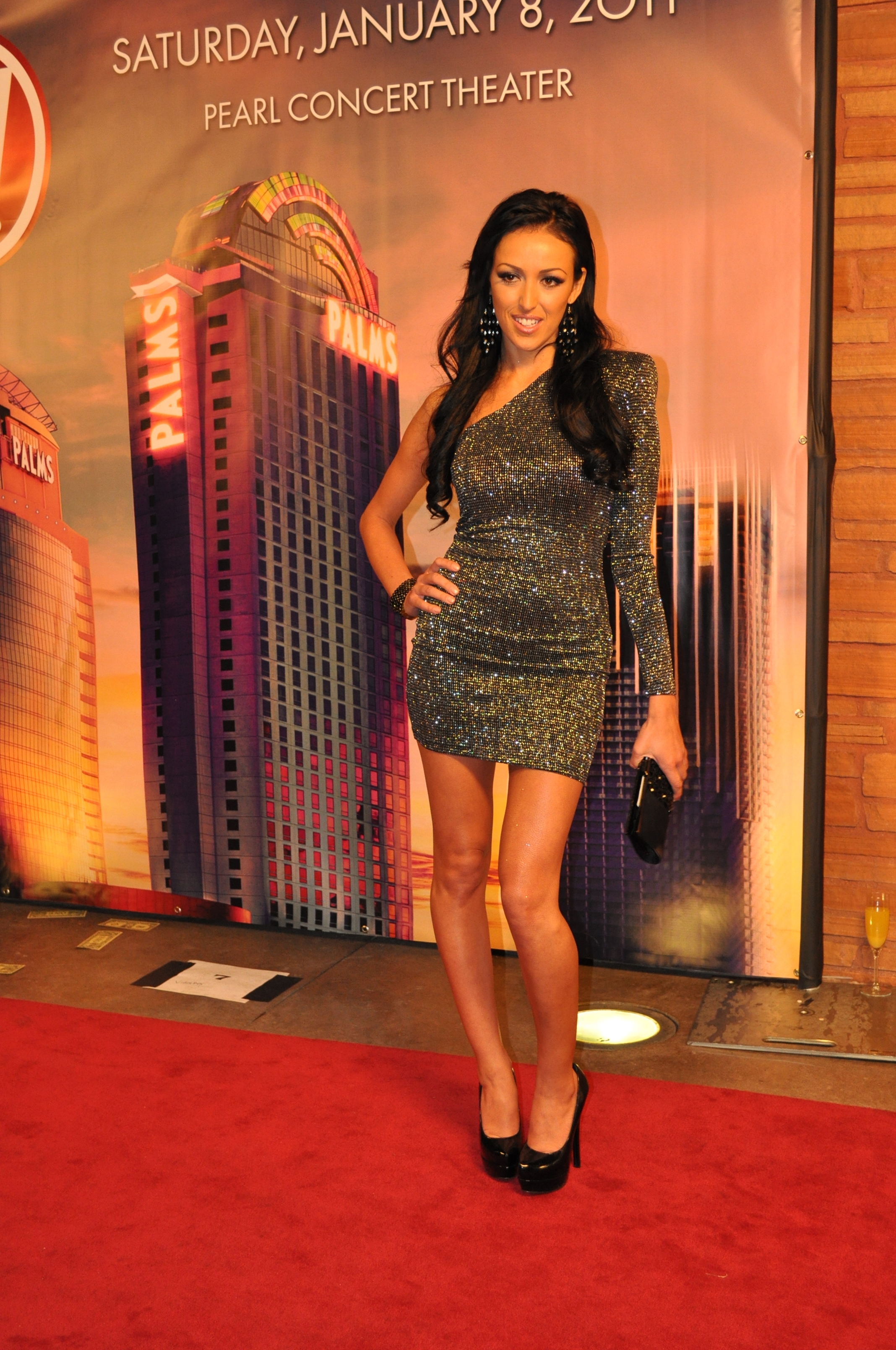 Breanne Benson at AVN Awards 2011